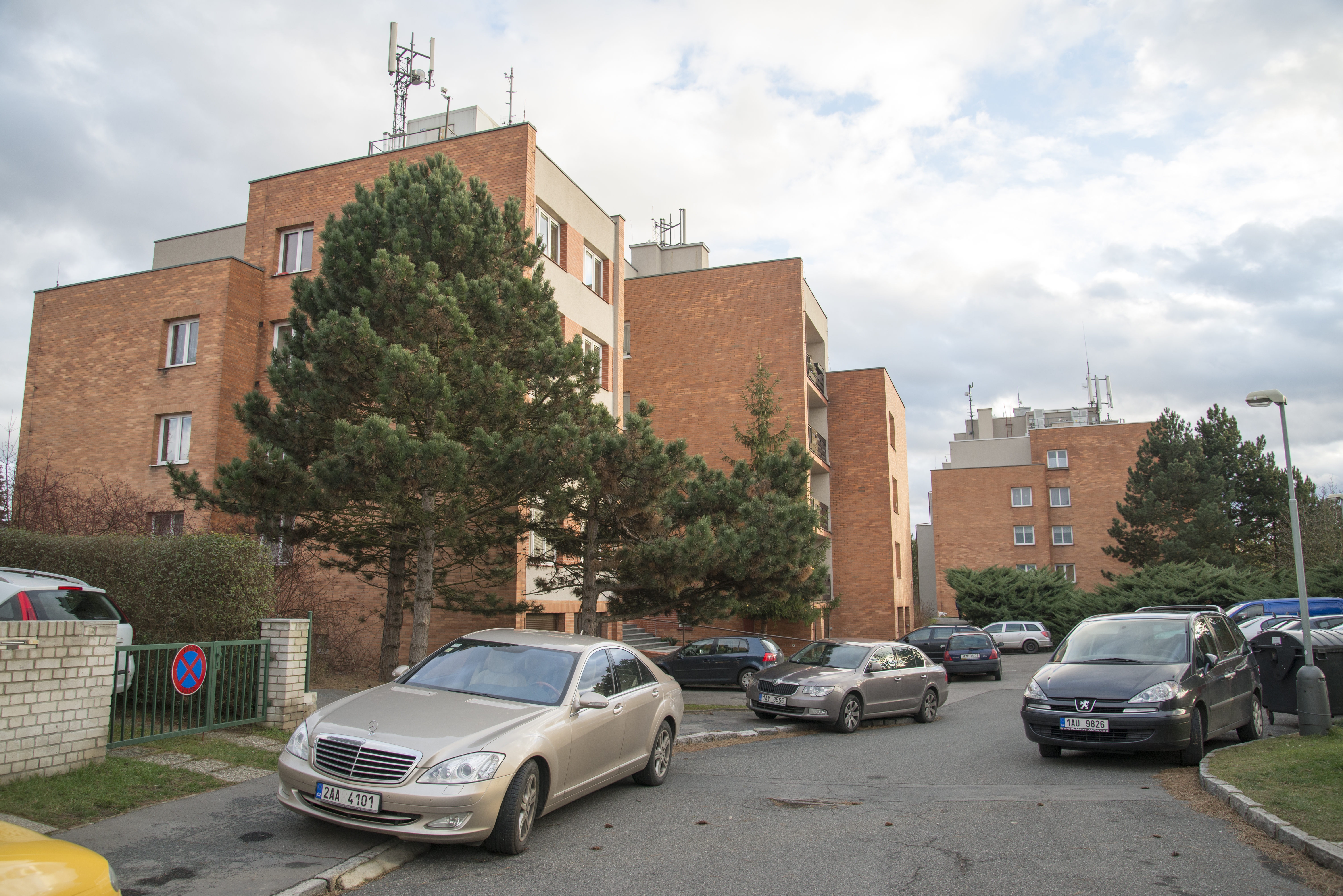 Housing Estate Baba II, Praha Dejvice